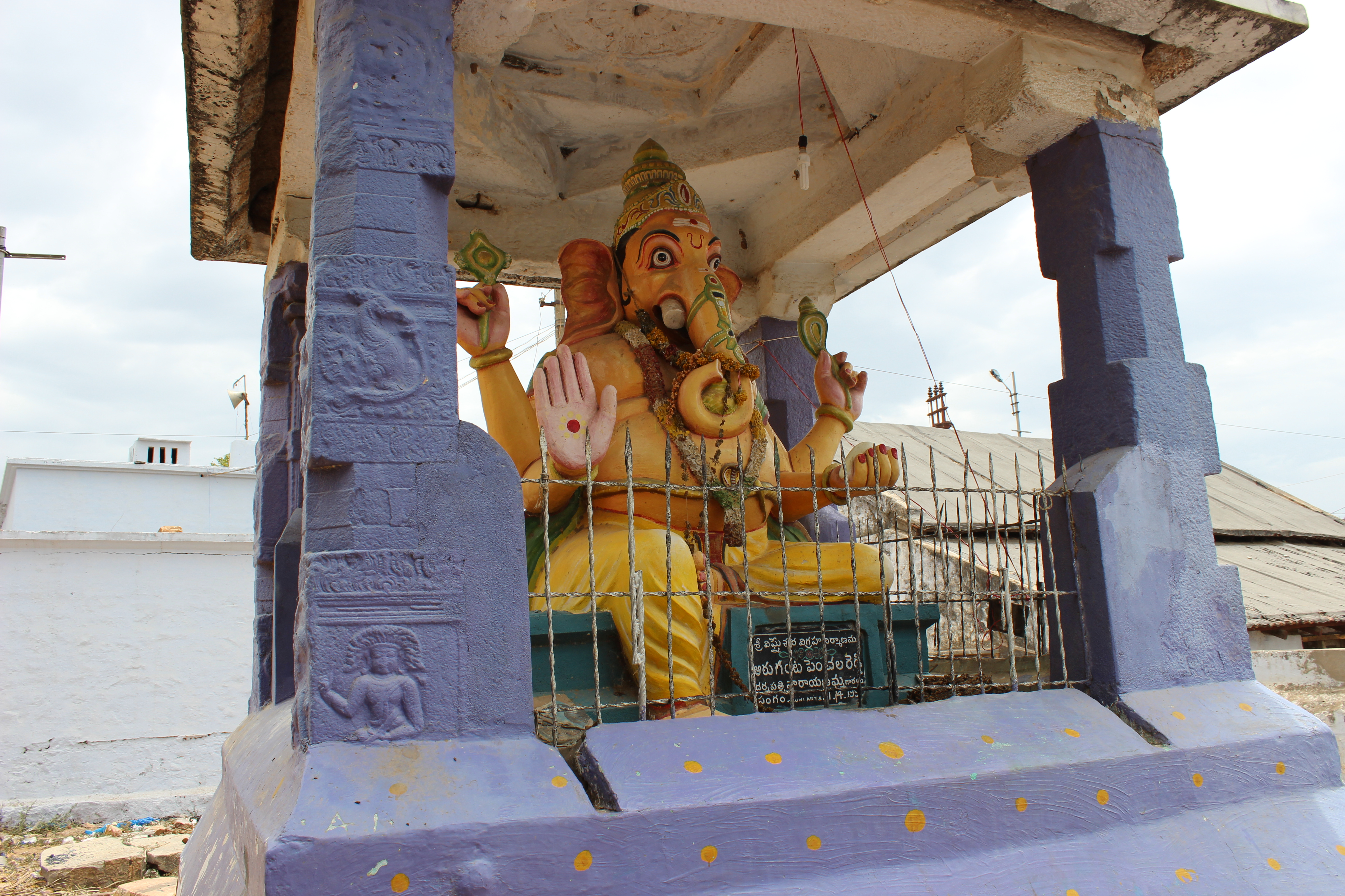 Sangameswara temple photos